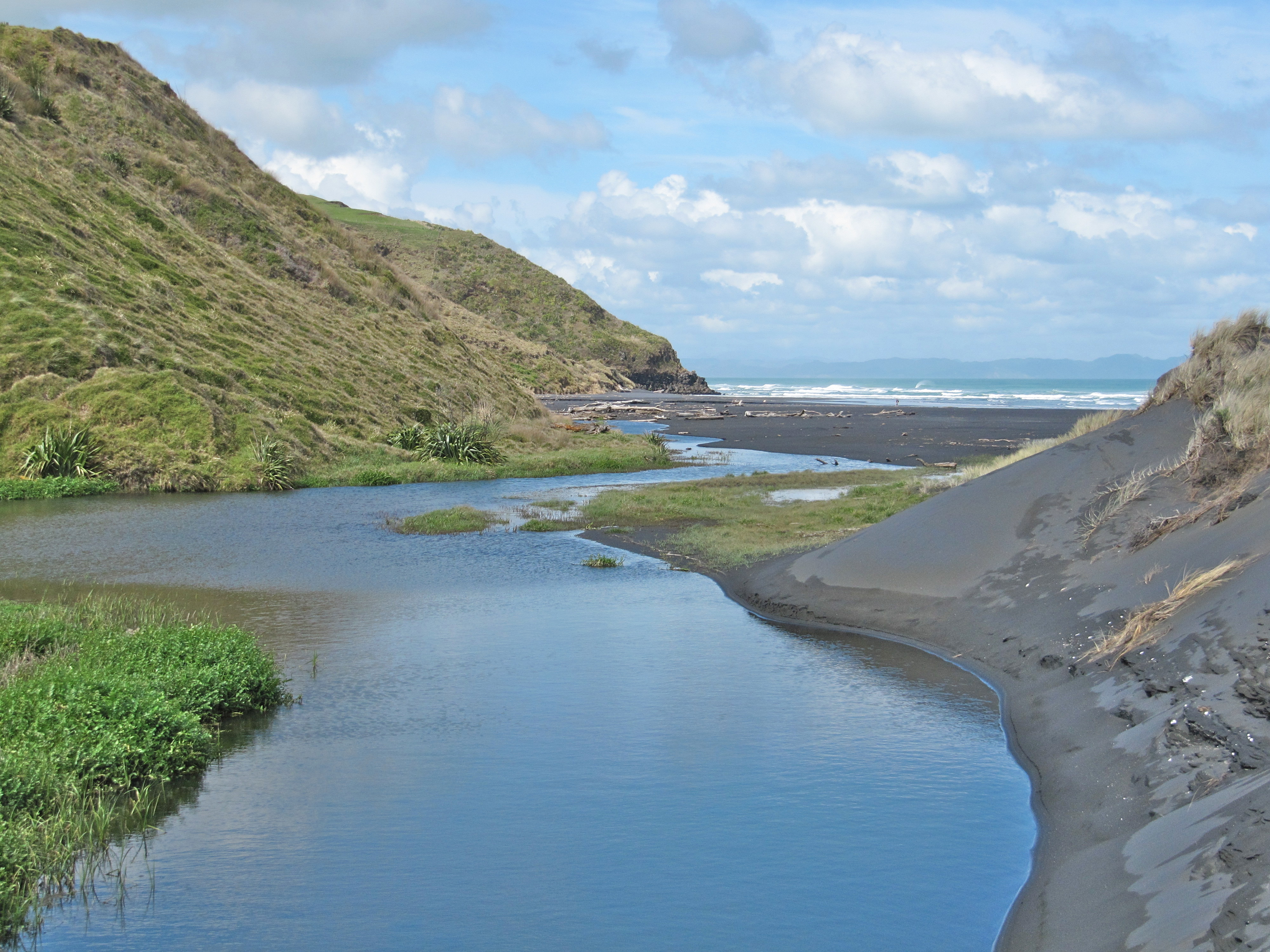 A path leads from Ruapuke Beach Rd